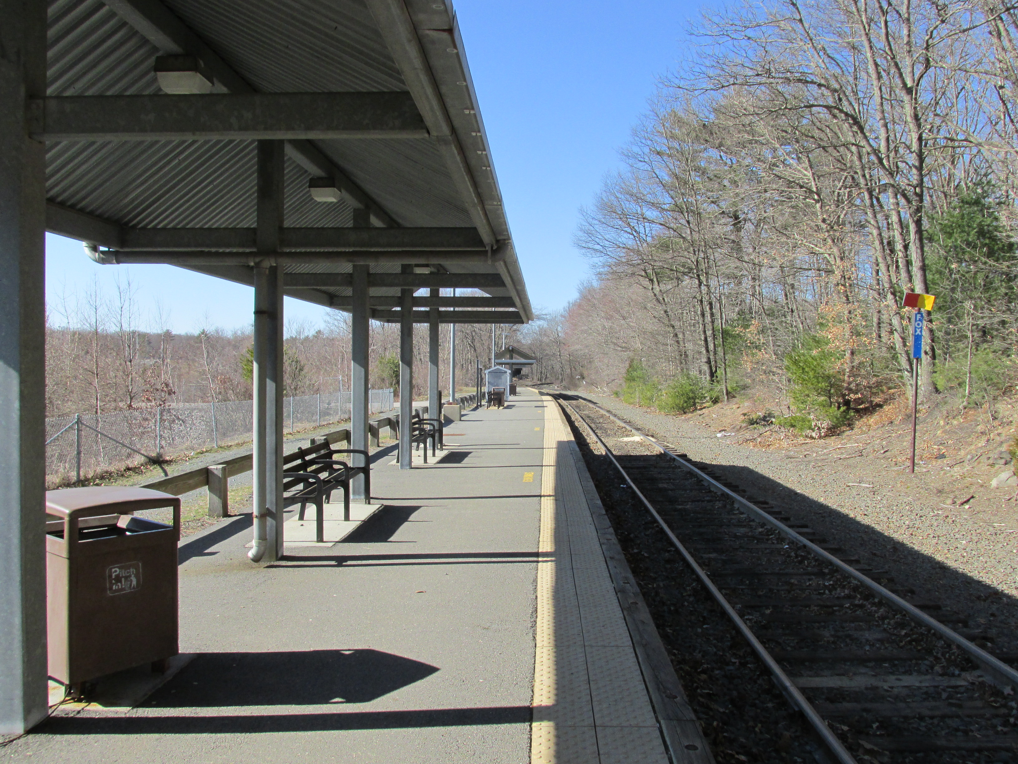 Foxboro MBTA station, Foxborough Massachusetts - 2013